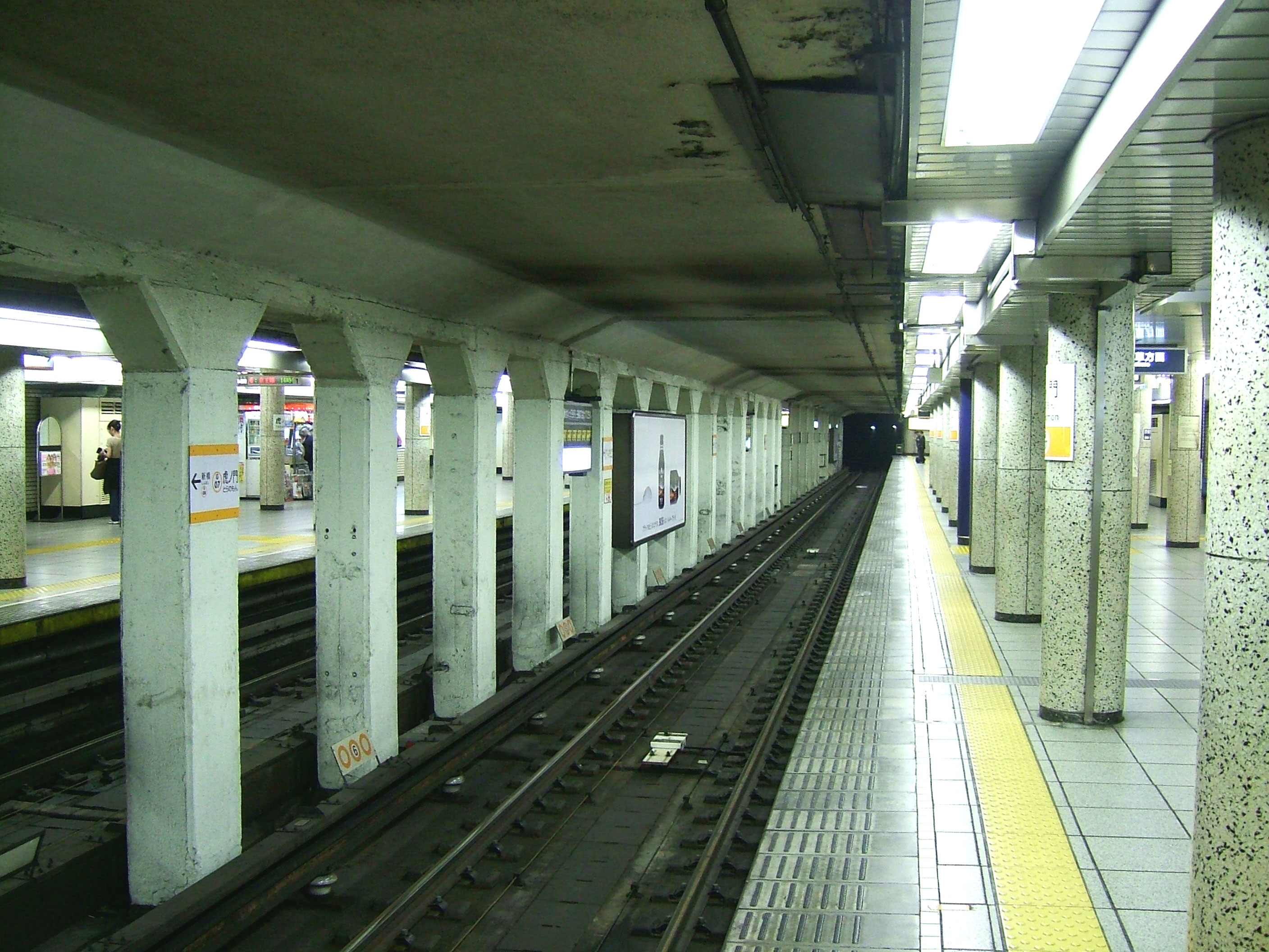 The platforms at Toranomon Station on the Tokyo Metro Ginza Line in Minato city, Tokyo, Japan